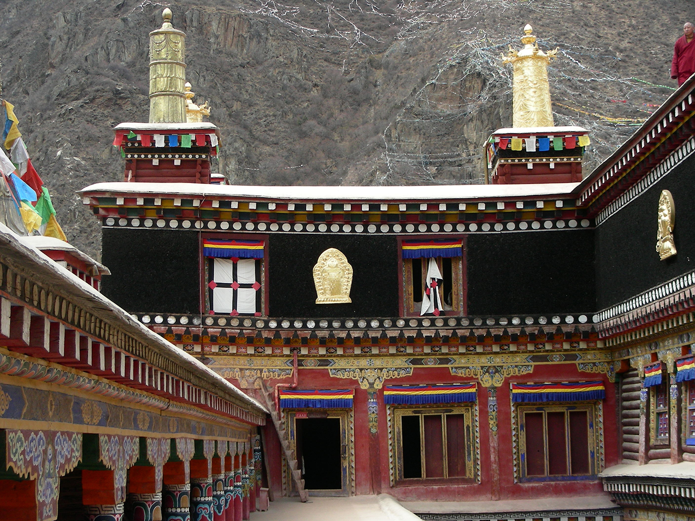 The Parkhang, in the town of Degé, is a printery for Tibetan Religious and Secular Books. It contains a significant amount of hand carved printing blocks from which Pecha are produced.